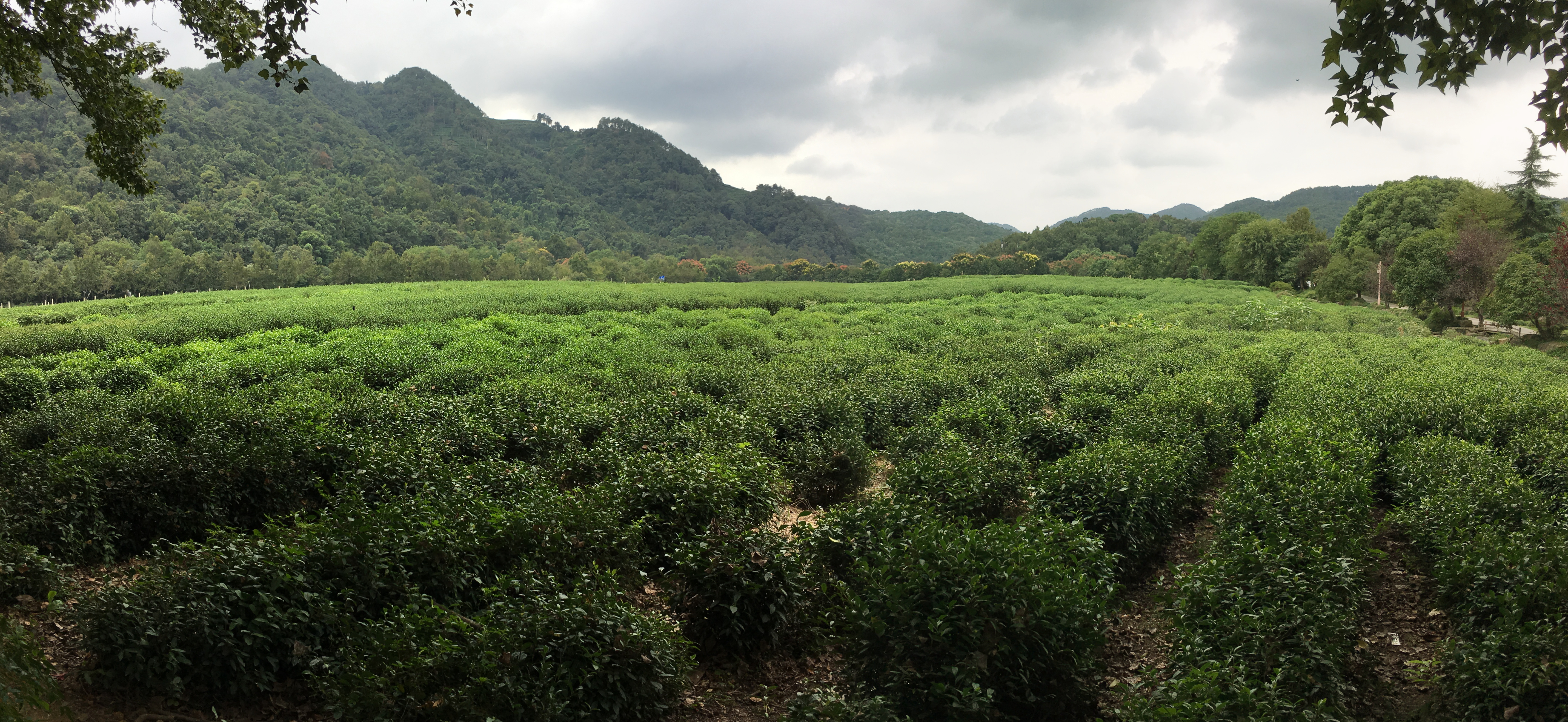 Tea plantation at the China National Tea Museum in Hangzhou, China